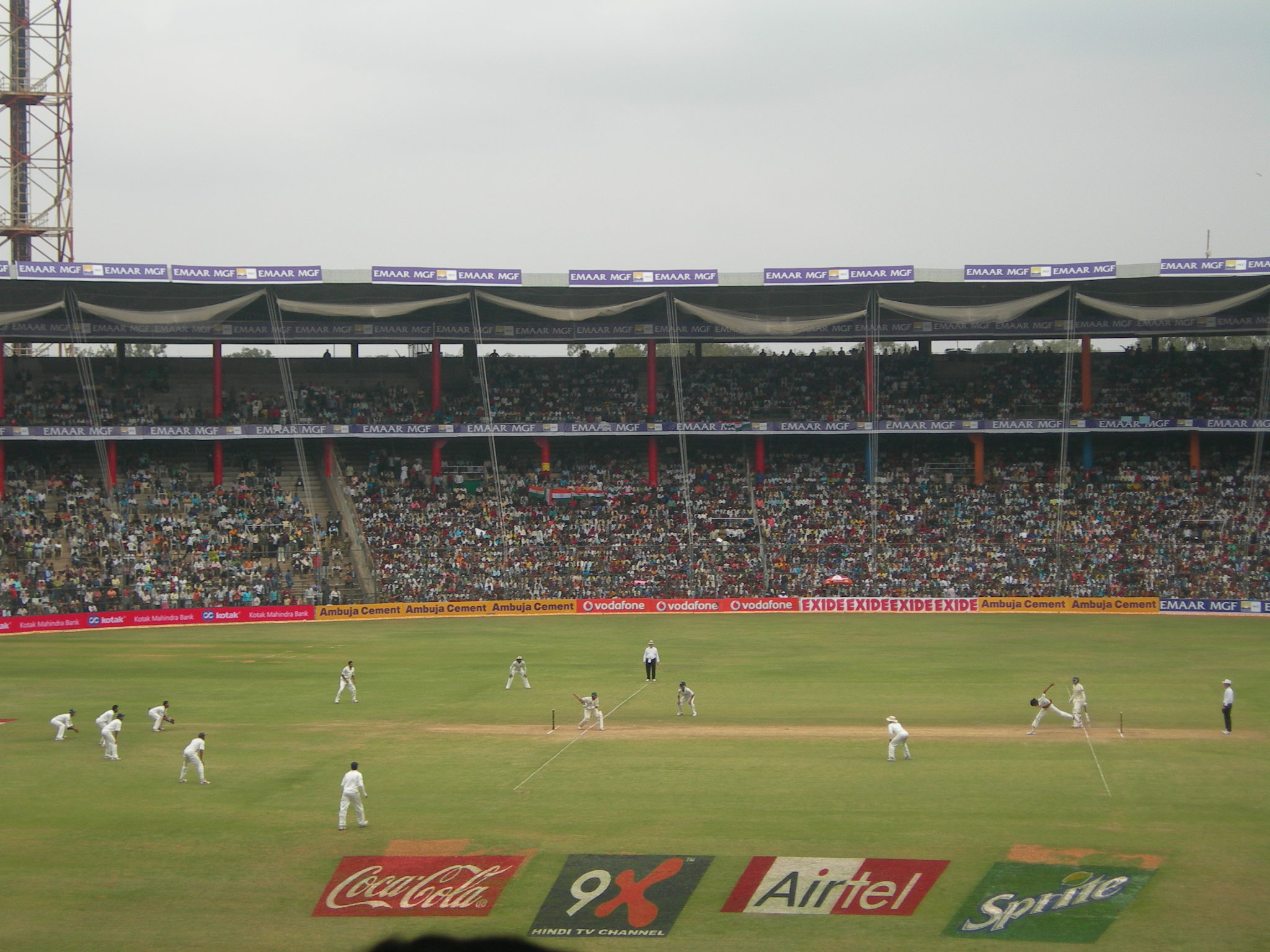 Ishant Sharma to Faisal Iqbal, Pakistan 2nd Innings, Dec 12th, 2007